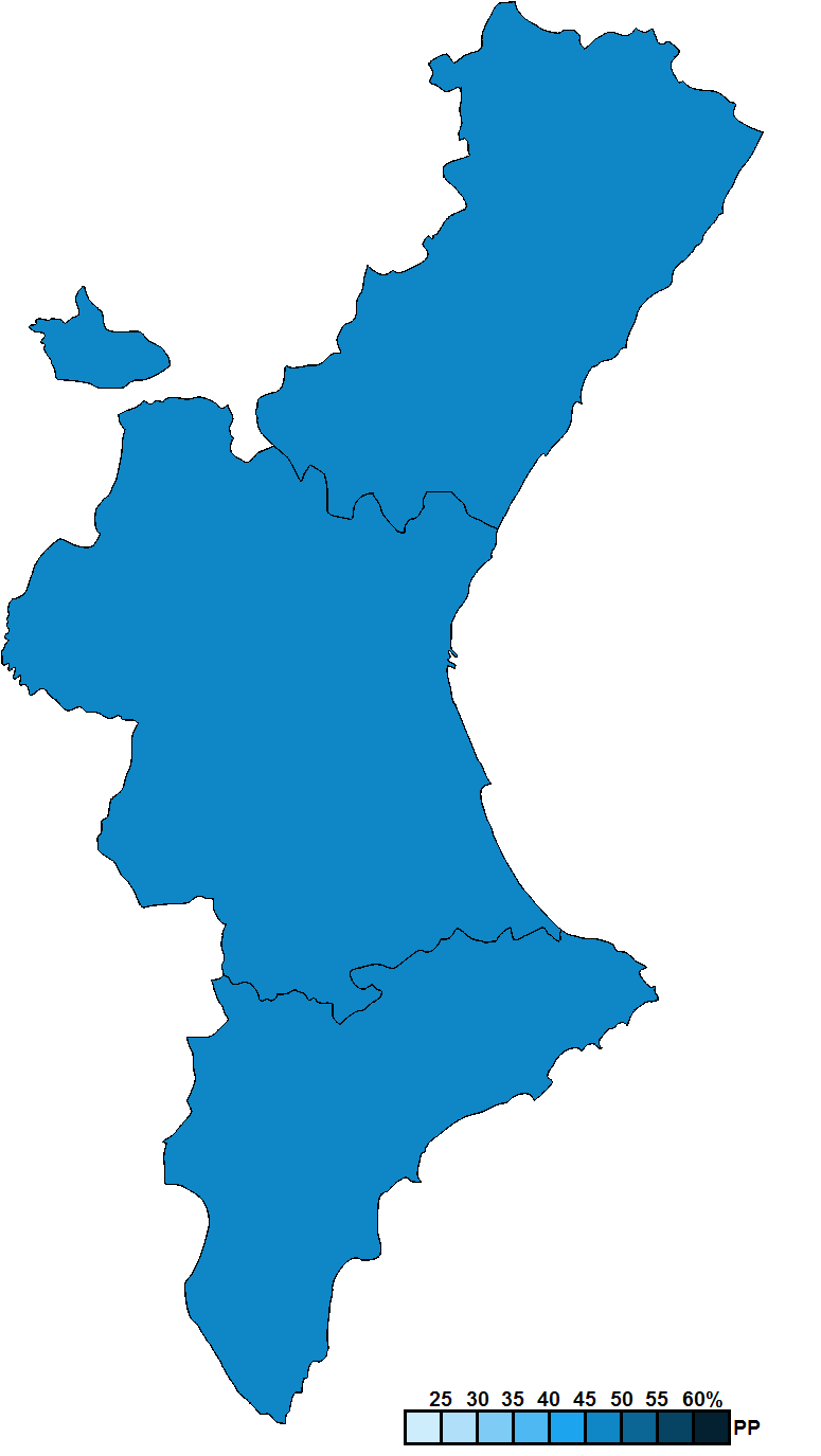 Provincial results for the 2011 Valencian regional election.